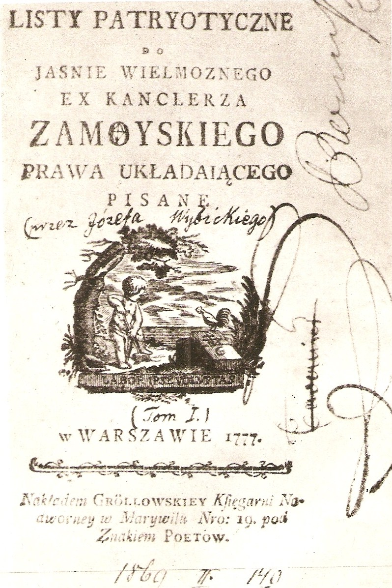 Józef Wybicki, "Listy patriotyczne do Jaśnie Wielmożnego Ex Kanclerza Zamoyskiego prawa układajacego" (1777)